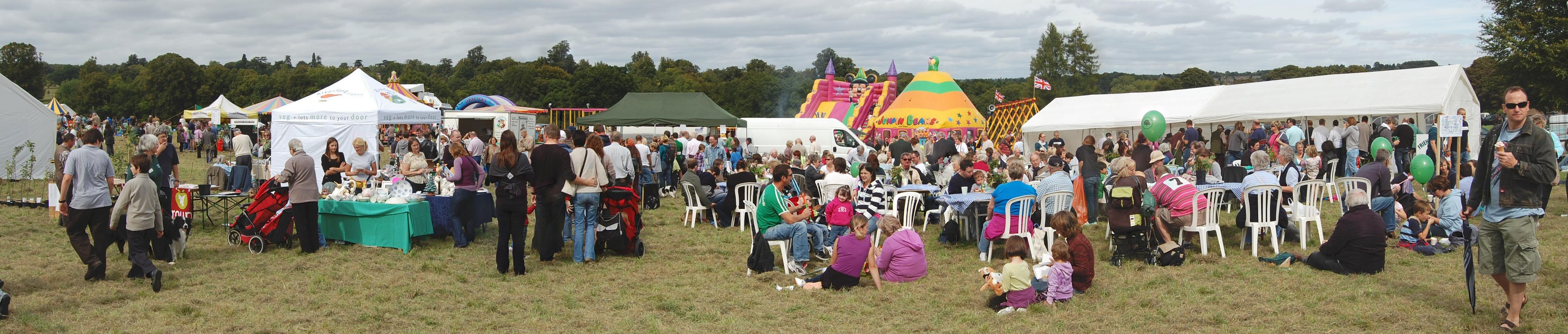 This shows the throng at the Wychwood Fair, with amusements in the background. To be use in article Other information A panoramic compilation from a set of overlapping photographs, all taken by me within a few seconds